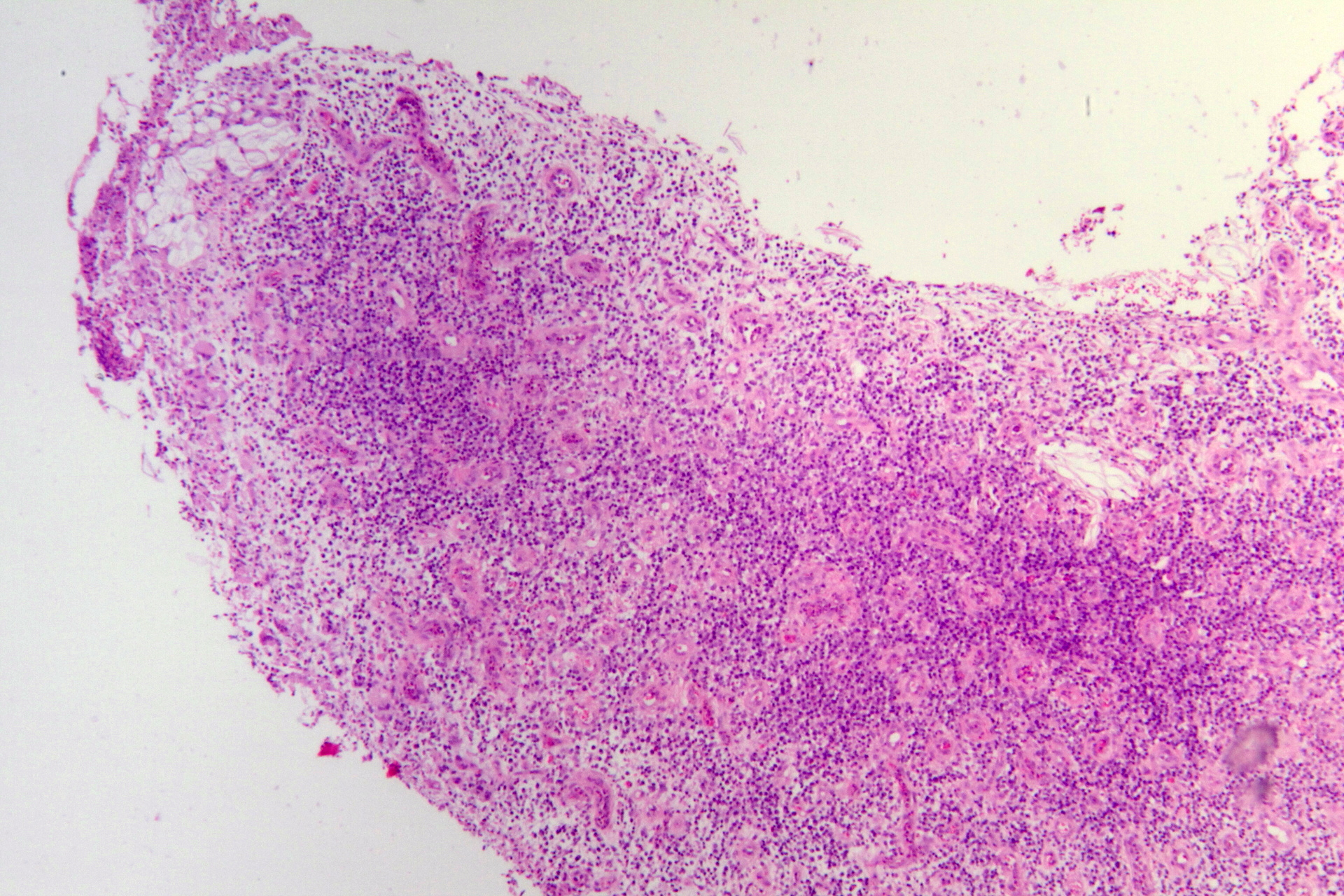 Otic polyp in a case of cholesteatoma. HE stain.